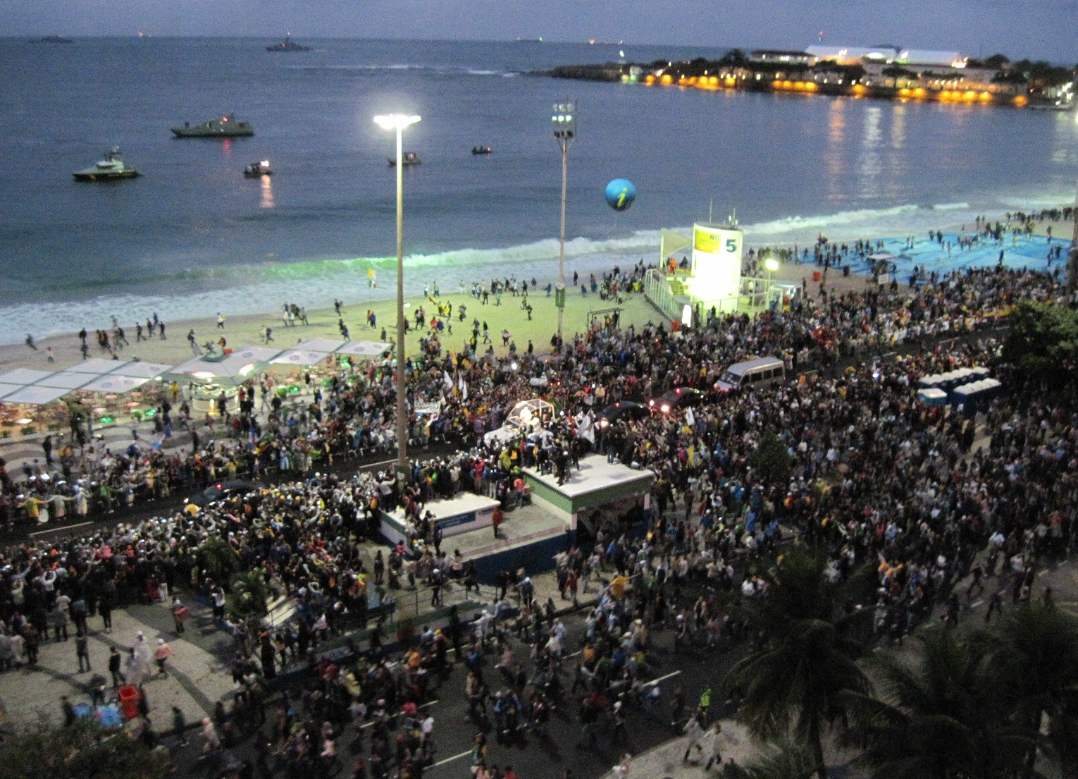 Pope Franciscus in World Youth Day 2013. Posto 5, Copacabana, Rio de Janeiro, Brazil, July 2013.